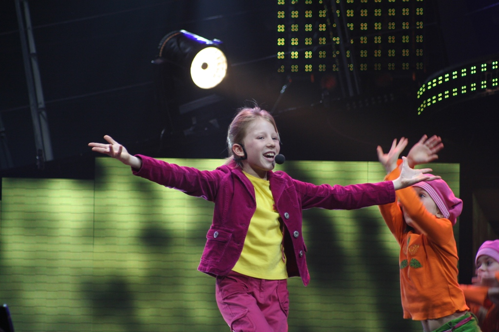 Lindsay Daenen at the Junior Eurovision Song Contest 2005